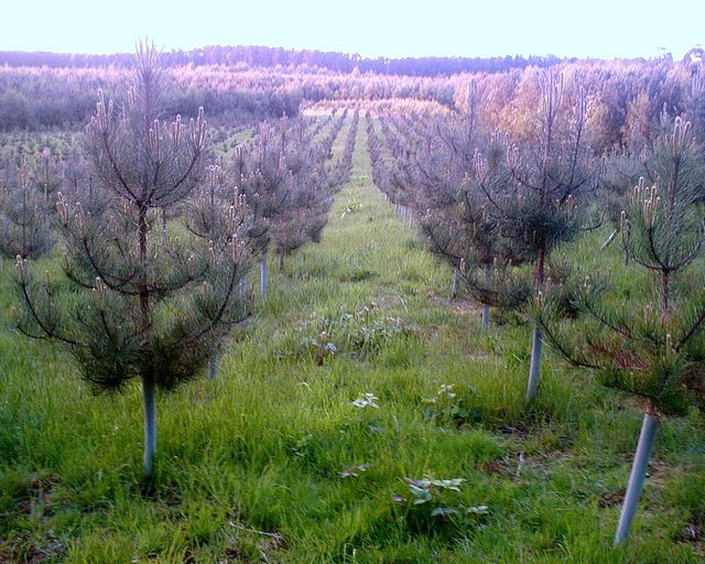 Tree Nursery, Oakmere. Forestry Commission Tree Nursery, off A49, Tarporley Road, and Hogshead Lane, Oakmere.